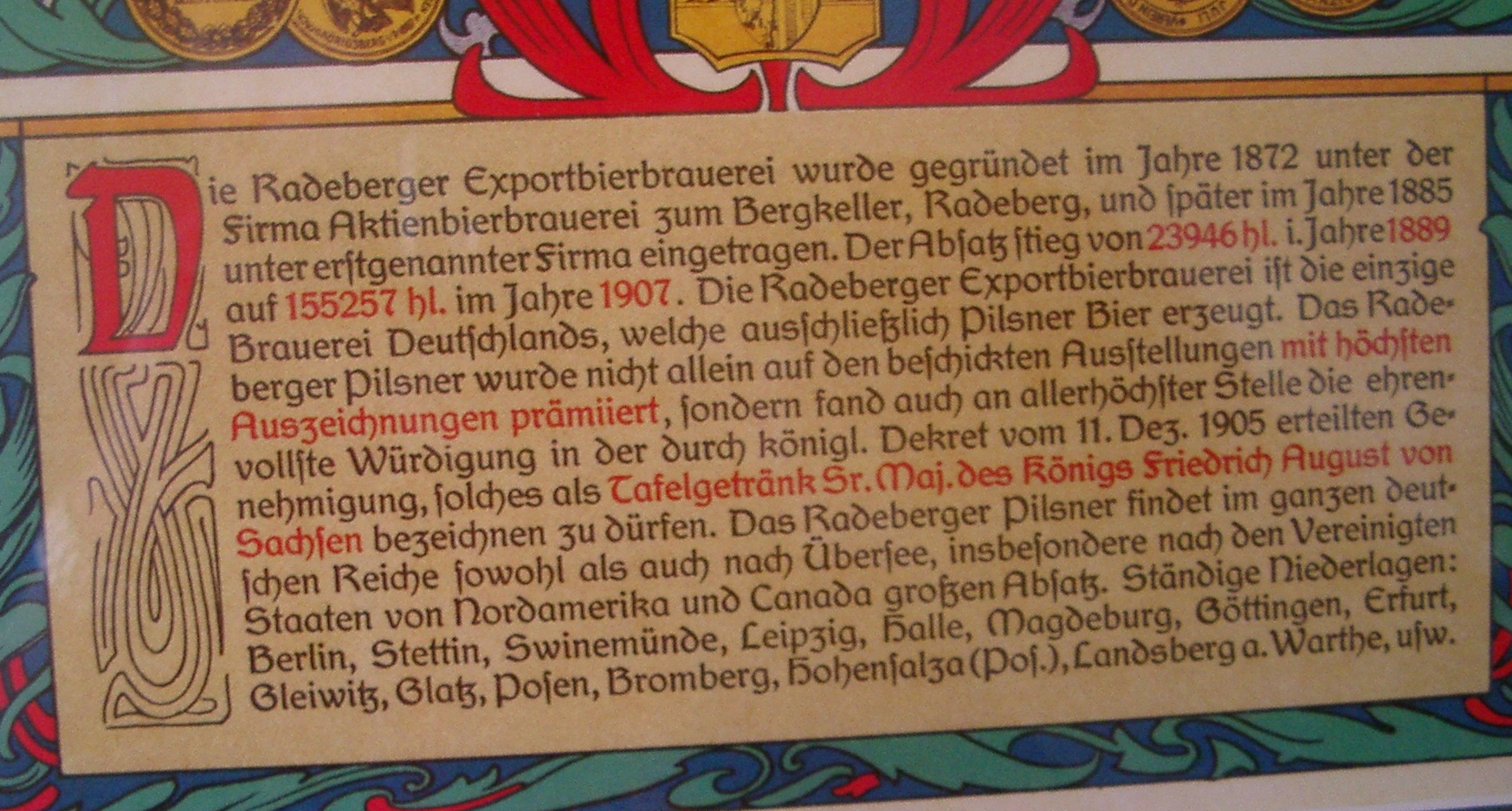 Advertisement text of East German Radeberger Brewery. Script similar to Rotunda. Picture taken in "Zur Quelle", Kastanienstraße, Schwerborn near Erfurt 2005.